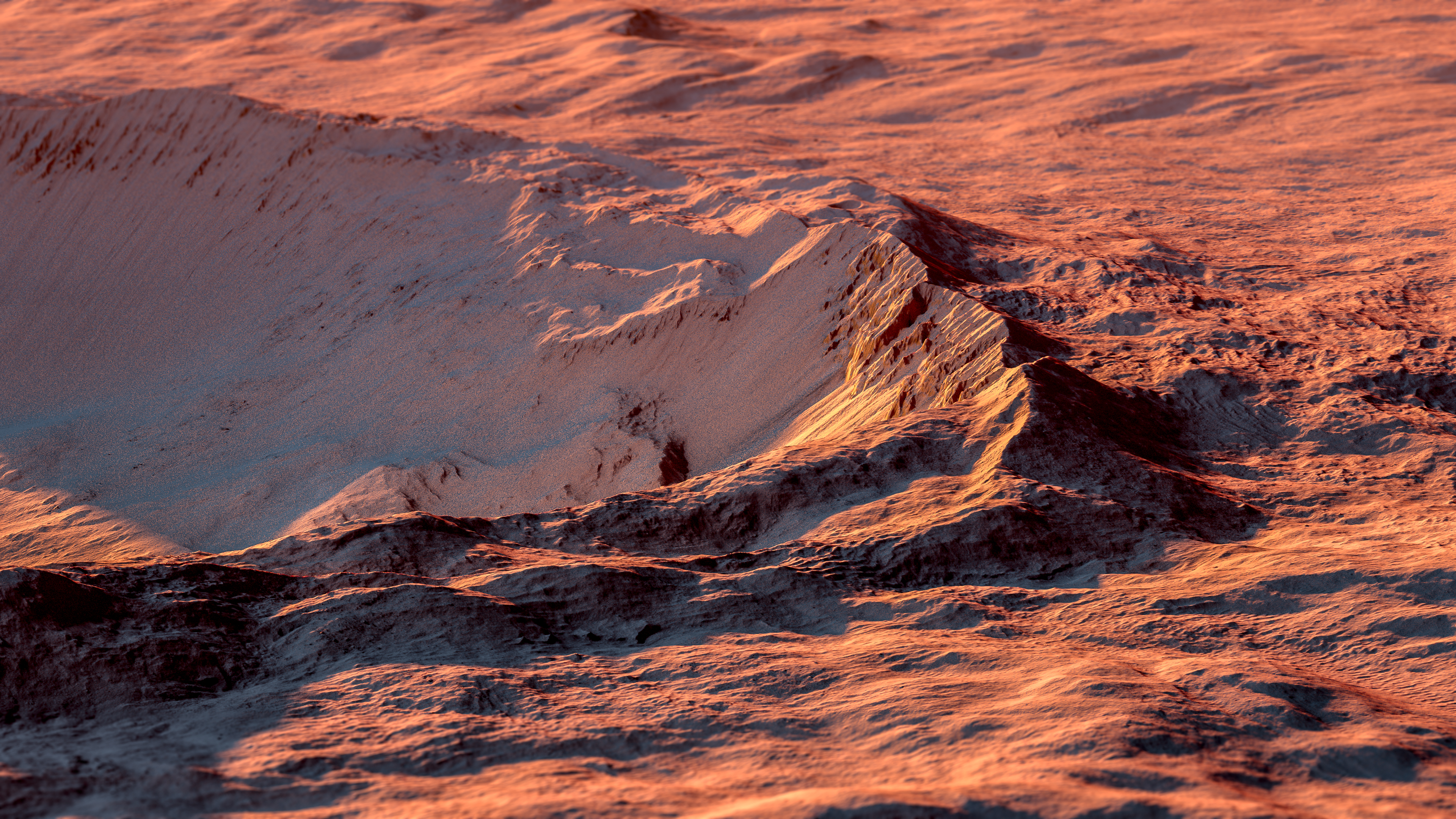 Rendered using Autodesk Maya and Adobe Lightroom. HiRISE data processed using gdal. Data: NASA/JPL/University of Arizona/USGS